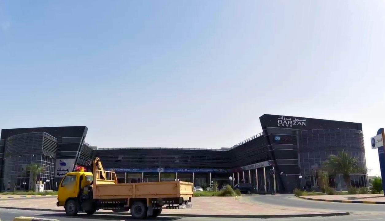 Barzan Souq in Umm Salal Mohammed.